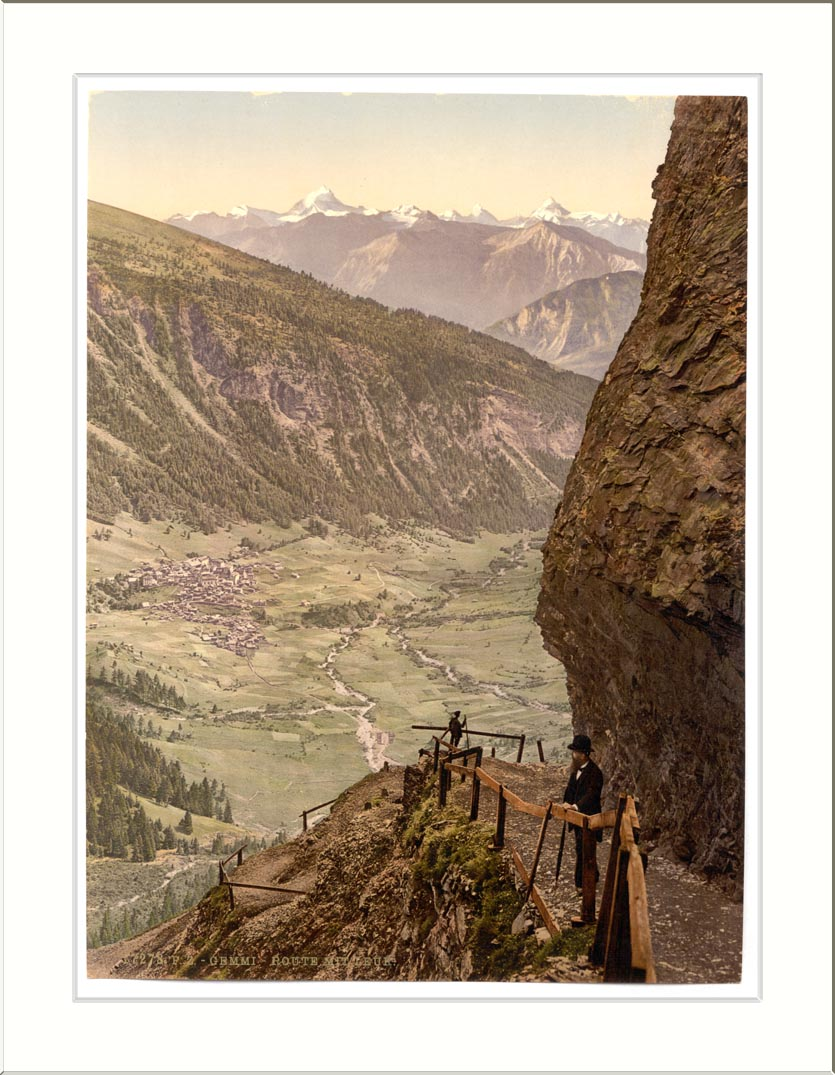 Gemmi-Route and Leuk Valais Alps of Switzerland